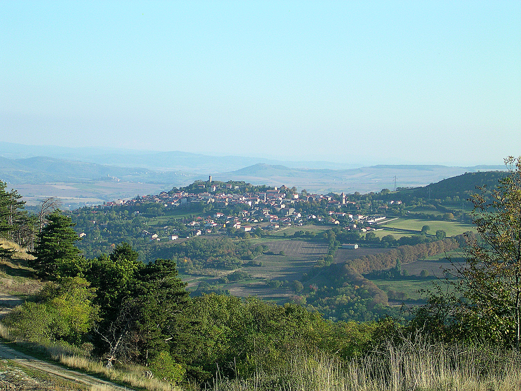 The village of Le Crest (Puy-de-Dôme, France).